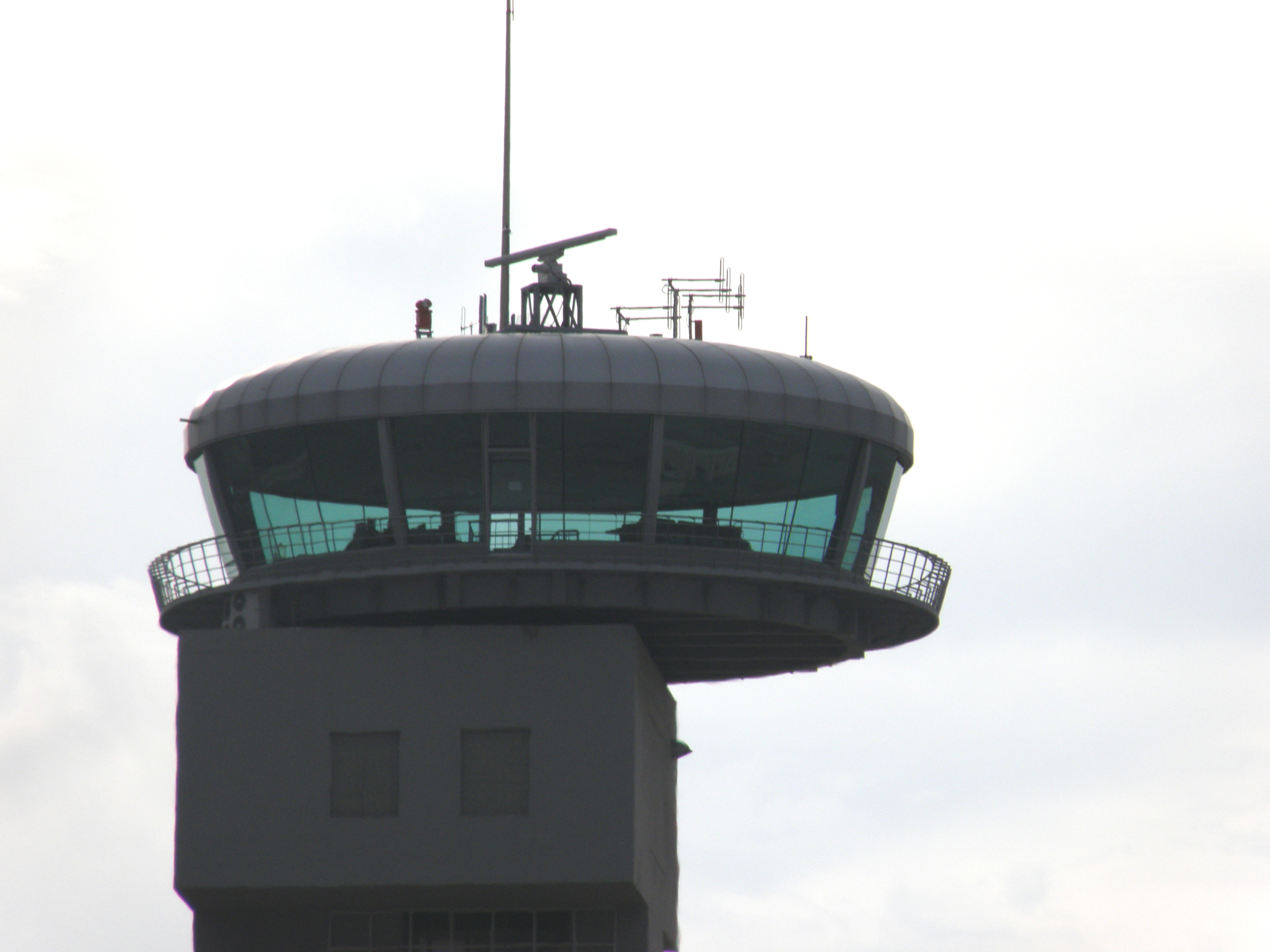 ATC tower at Bengaluru International Airport.